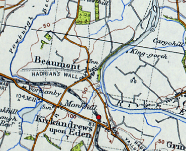 Map of Beaumont